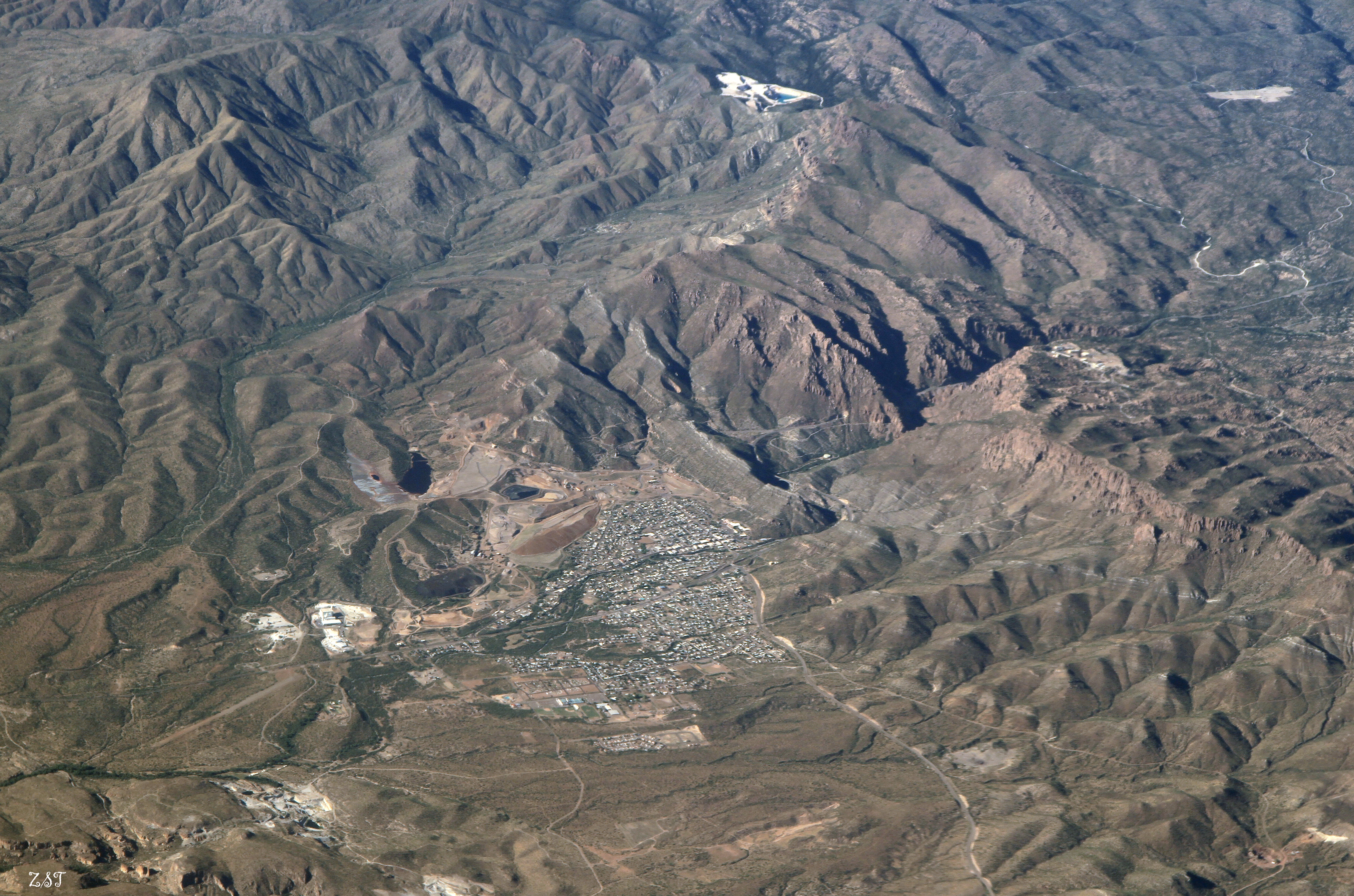 Superior AZ aerial photo, looking North